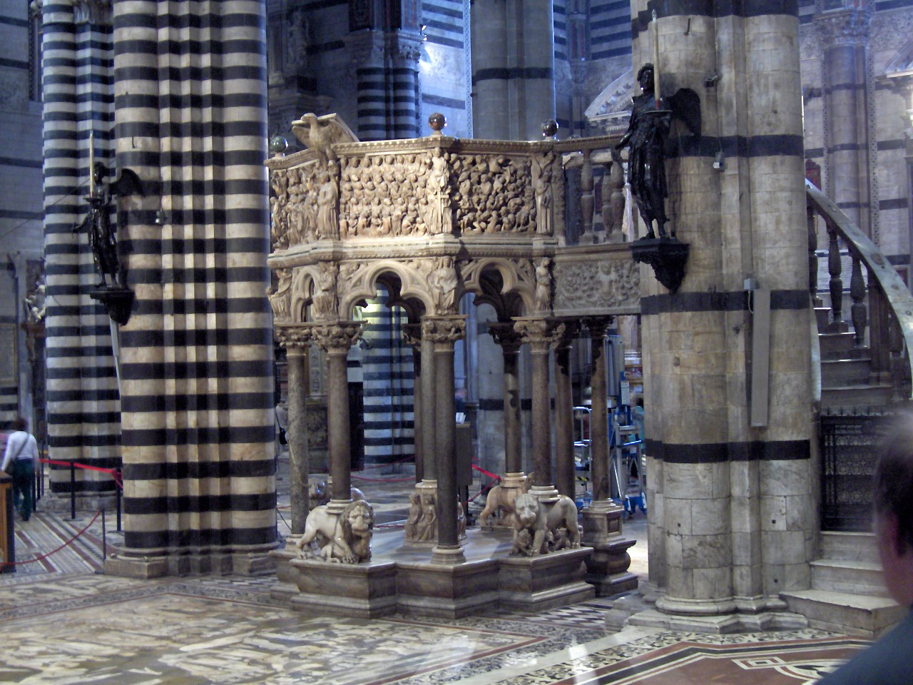 Pulpit by Nicola Pisano; Duomo; Siena, Italy Own photo - photo made on 11 October 2005